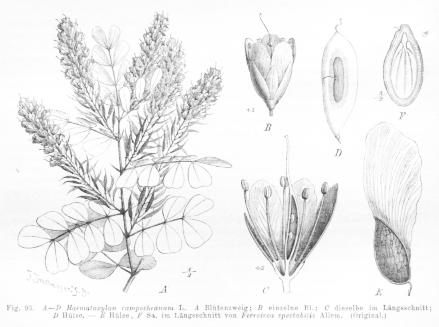 Illustration from book